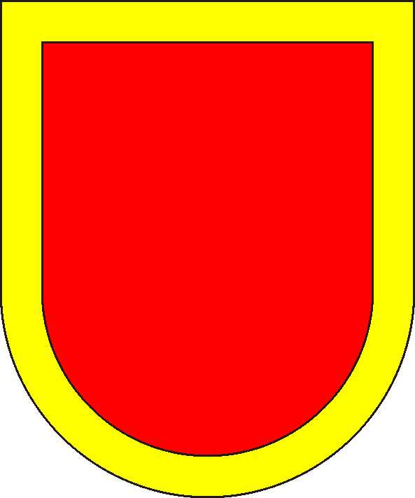 lordhip of Bitsch